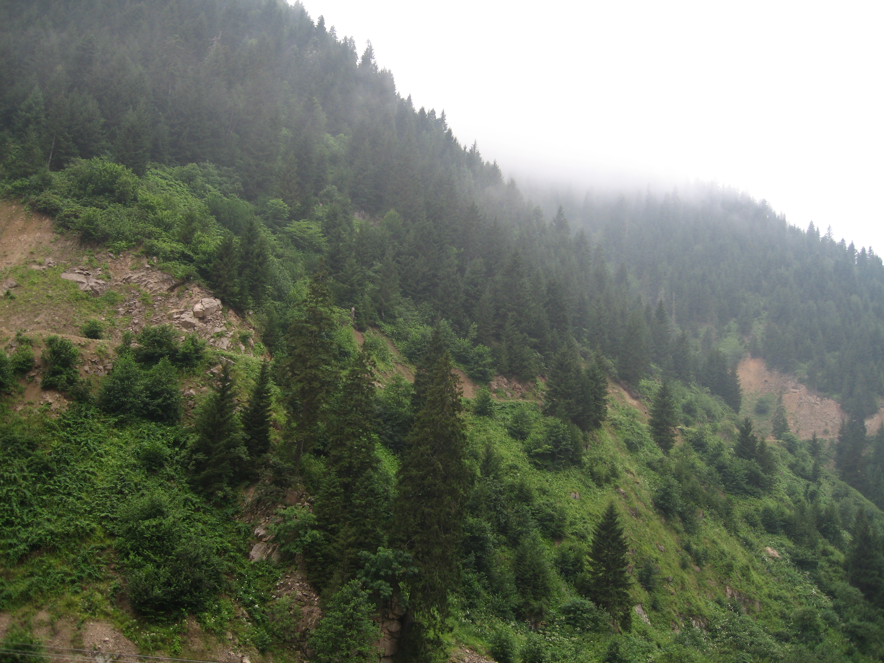 Picea orientalis. North coast of Turkey.